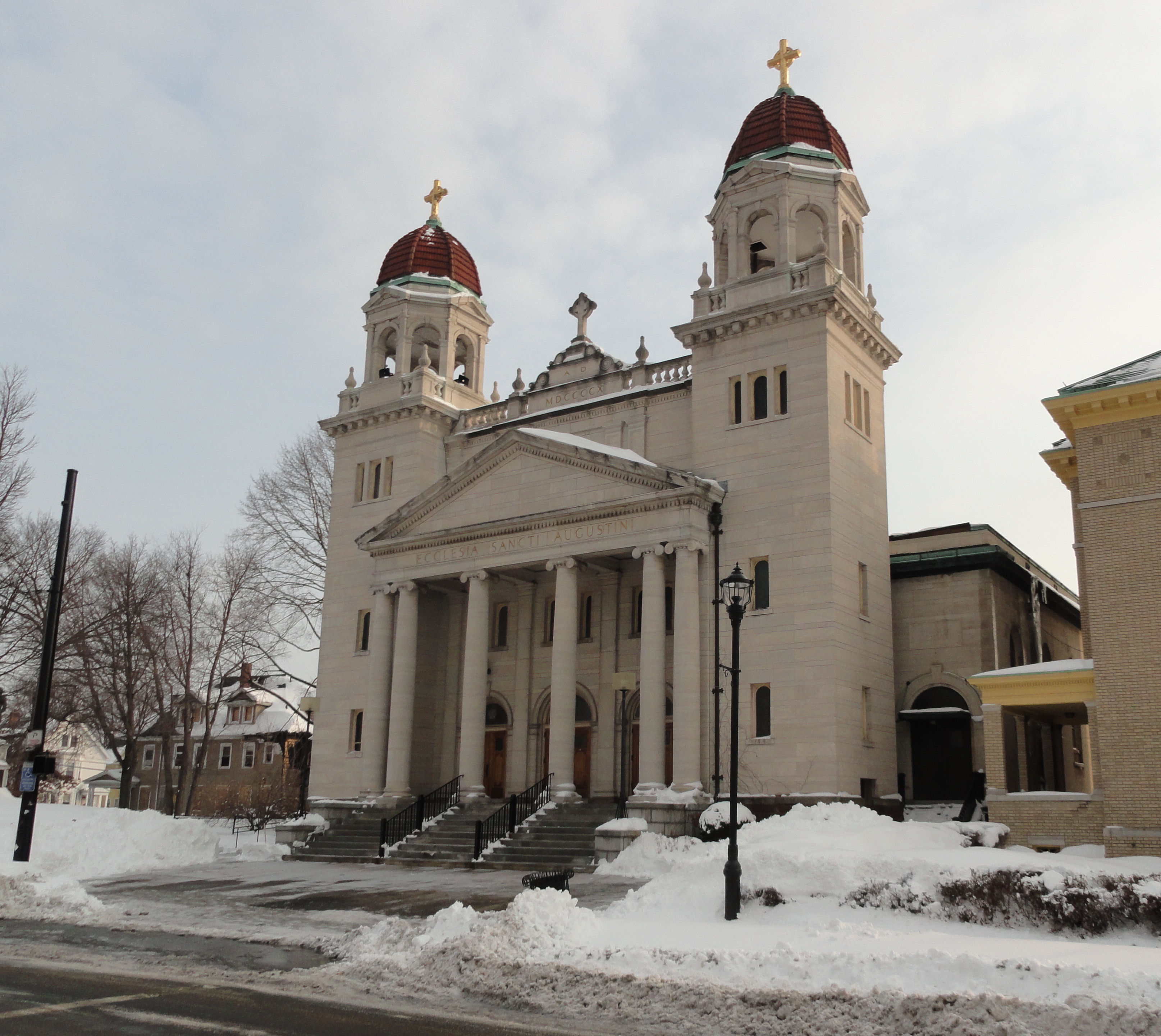 St. Augustine Catholic Church Hartford Ct Whiton and McMahon architect